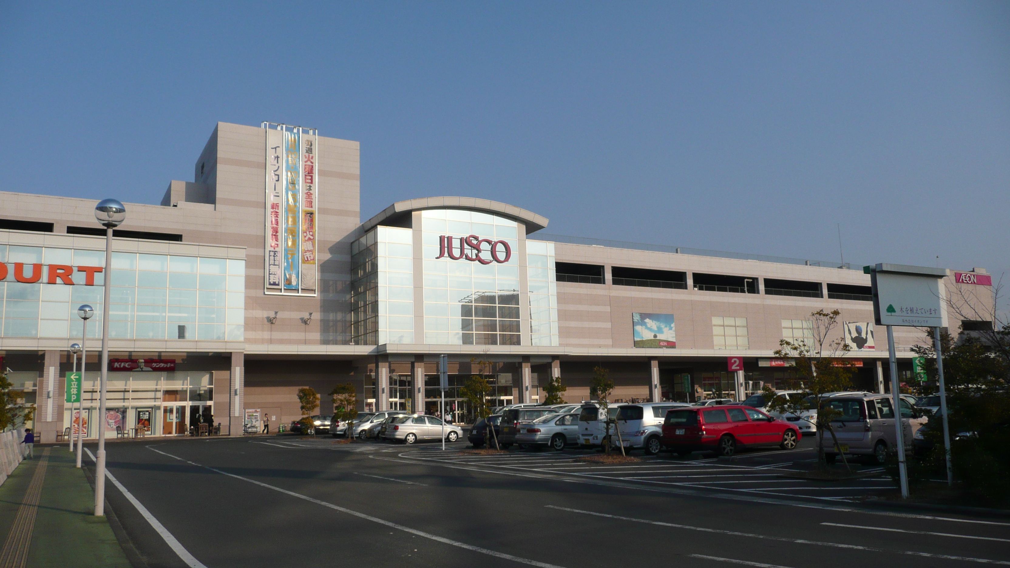 AEON Miyakonojo Shopping Center (Miyazaki Prefecture, Japan)